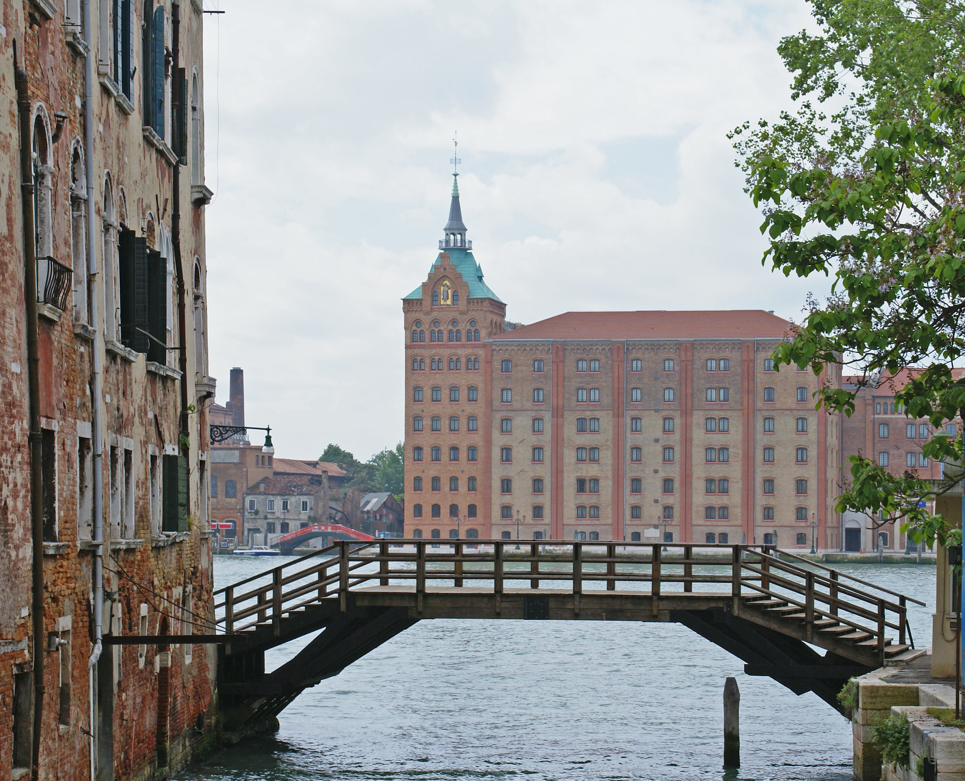 Ponte Molin on Rio San Basegio, Molino Stucky in background, Venice.